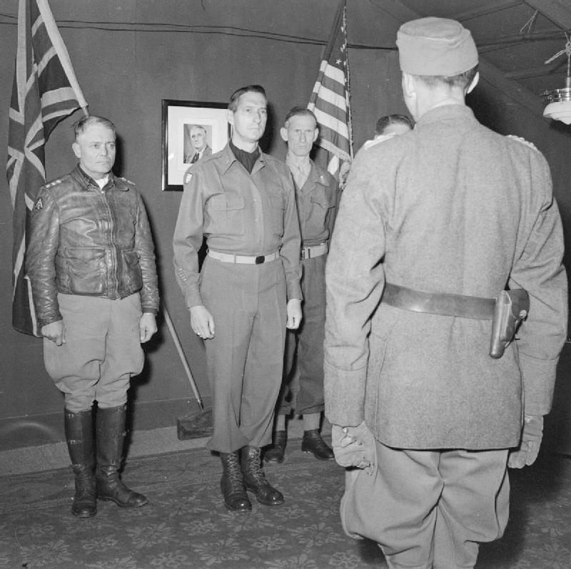 German Army Lieutenant General von Senger und Etterlin, the Commander of XIV Panzer Corps, meets General Mark Clark, Lieutenant General McCreary and Lieutenant General L. K. Truscott at 15 Army Group Headquarters, where the Germans received instructions regarding the unconditional surrender of German forces in Italy and West Austria.